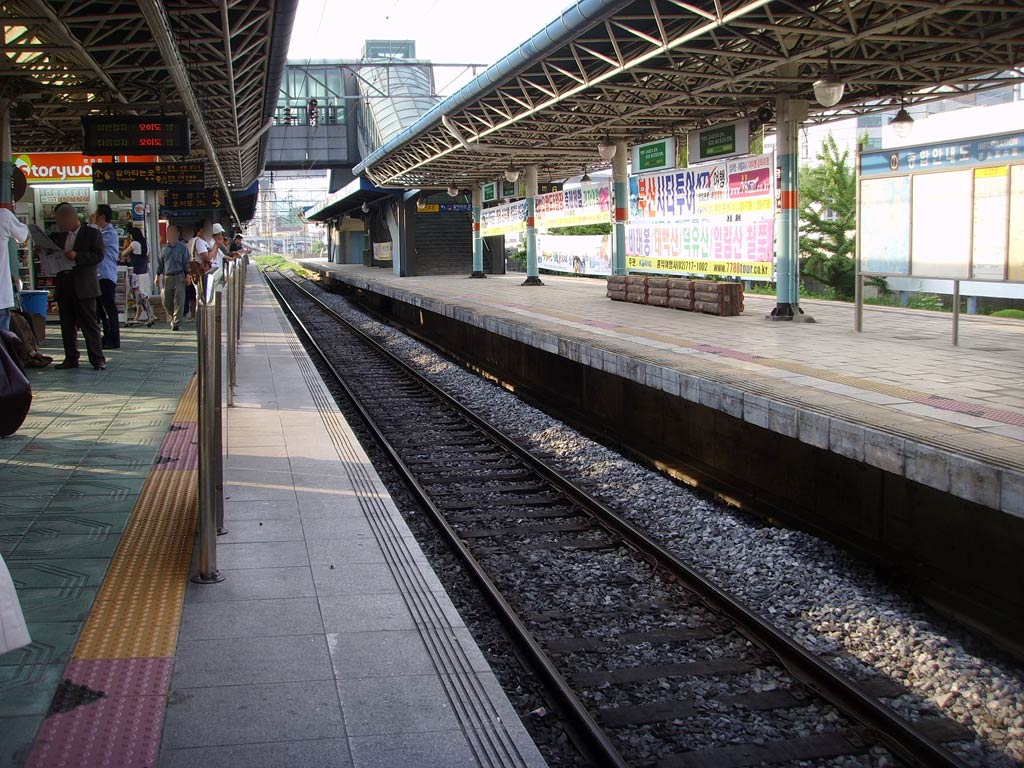 The platform of Geumjeong Station, for Oido Station, Seoul Subway Line 4